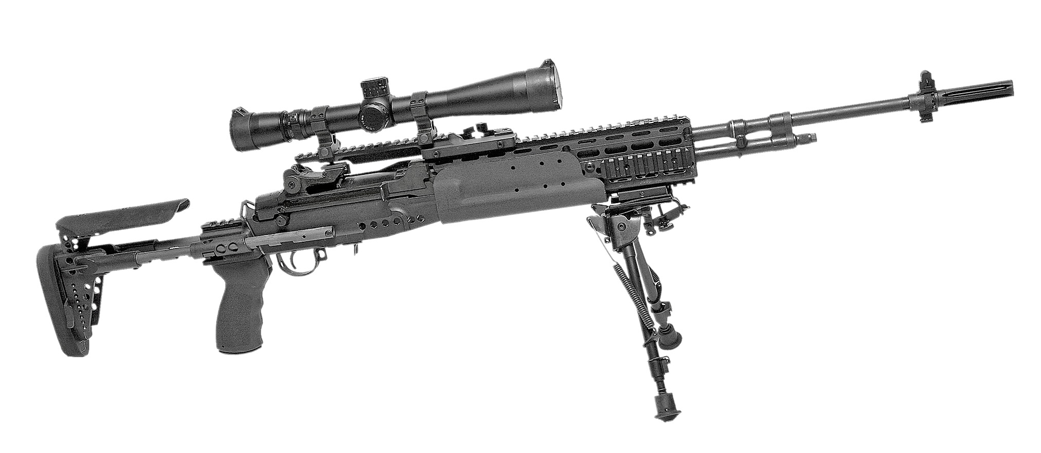 TACOM M14EBR-RI Provides infantry squads with the capability to engage enemy targets beyond the range of M4 Carbines and M16 Rifles.